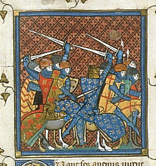 Louis le Gros defeating Thiebaud's men